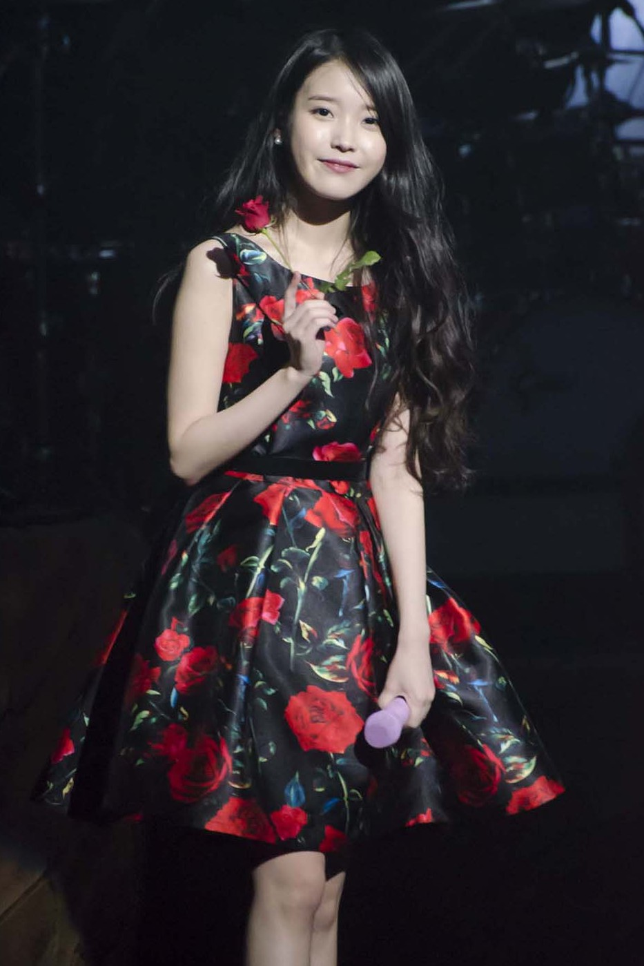 IU Chat-shire concert in Busan, 29 November 2015